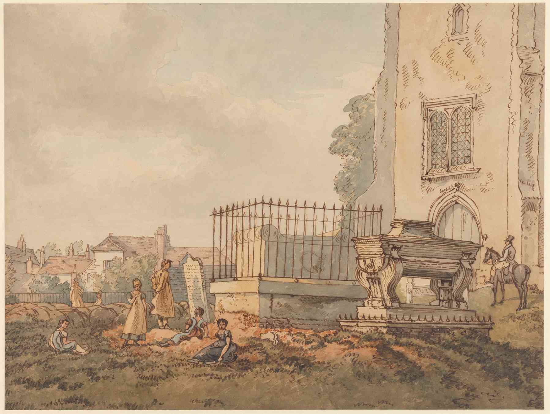 William Henry Hunt, 1790–1864, British, Bushey Churchyard with the Tombs of Edridge, Hearne and H. Monro, ca. 1822, Watercolor, pen and brown ink, and graphite on moderately thick, slightly textured, cream wove paper, Yale Center for British Art, Paul Mellon Collection